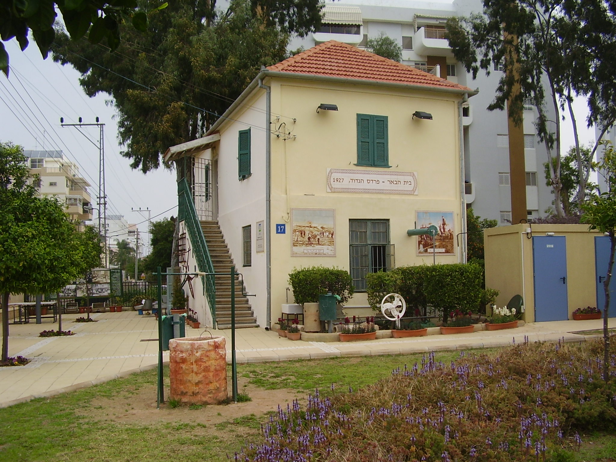 the "well house" historic museum in netanya